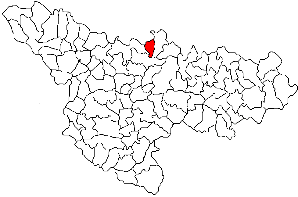 Lpcator map of Fibis commune in Timiș County Romania